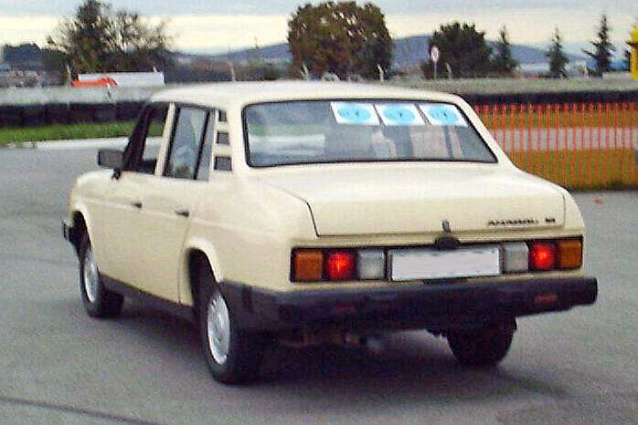 Rear view of Anadol 1981 A8-16.